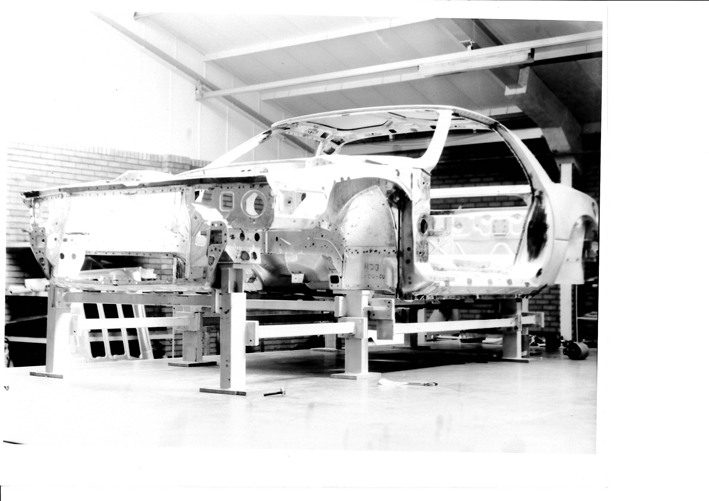 Buick Reatta c.1987